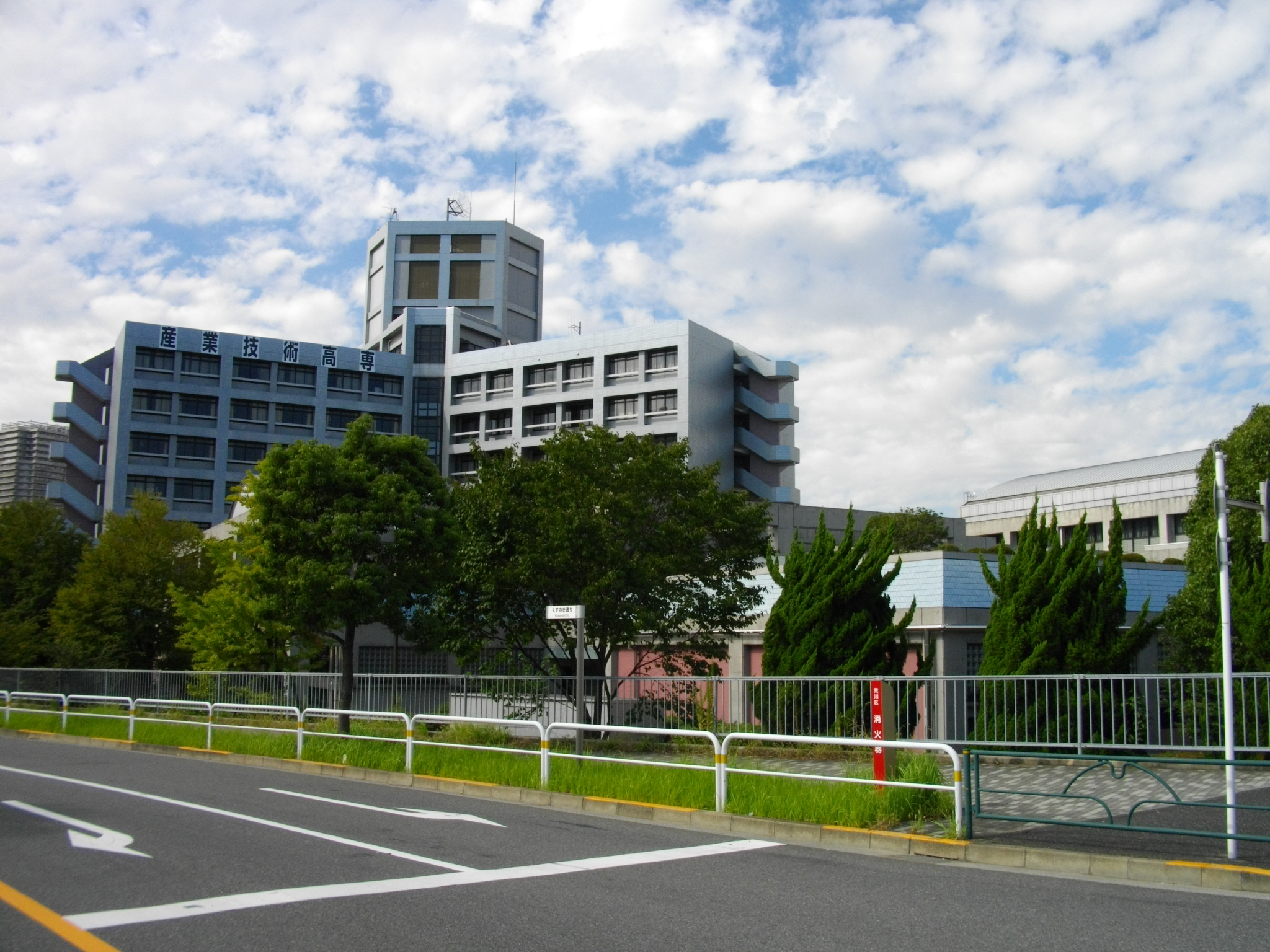 Tokyo Metropolitan College of Industrial Technology Arakawa Campus